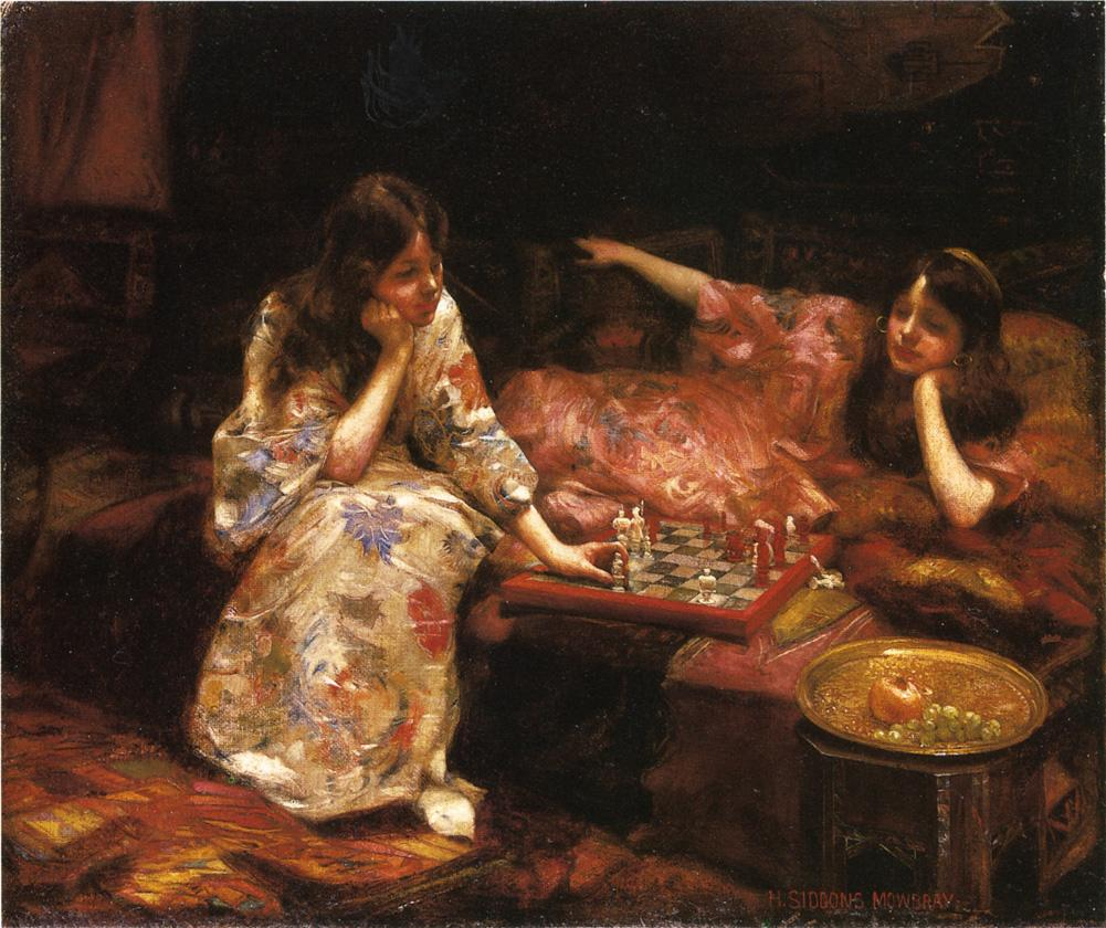 A Game of Chess